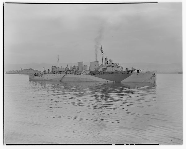 H.M.C.S. Prince Henry Anchored in Greenock.